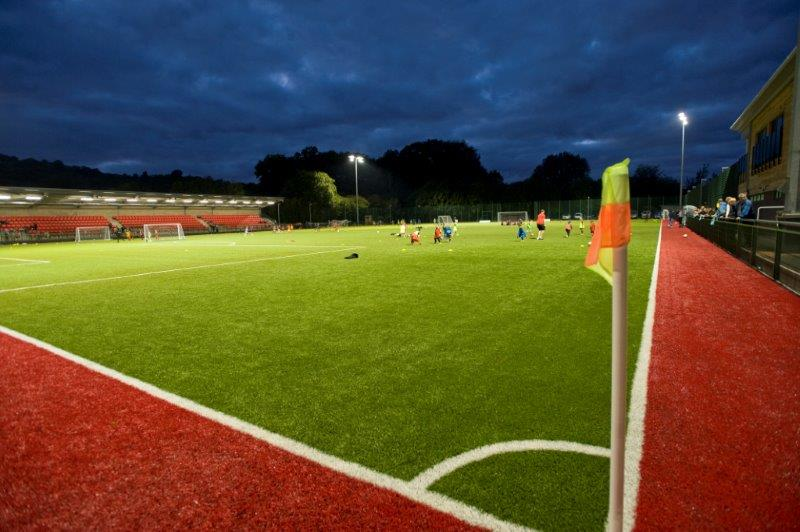 Picture of the FIFA 2 star 3G football pitch at the Ystrad Mynach site